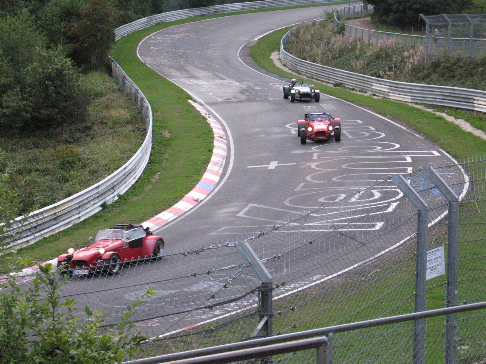 Nürburgring Nordschleife is often open to the public. Three Caterhams seen here entering Brünnchen, a favourite spectator vantage point.